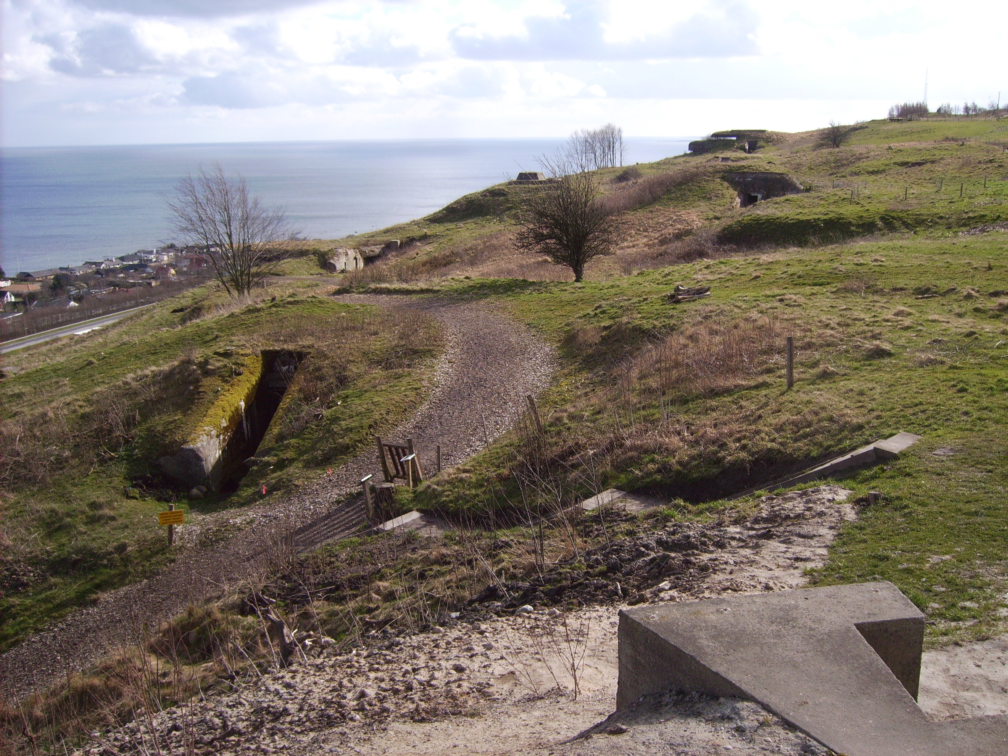 “Bangsbo Fort” in Frederikshavn in northeast Denmark, with German bunkers from World War II, built during the German occupation of Denmark between 1940 and 45